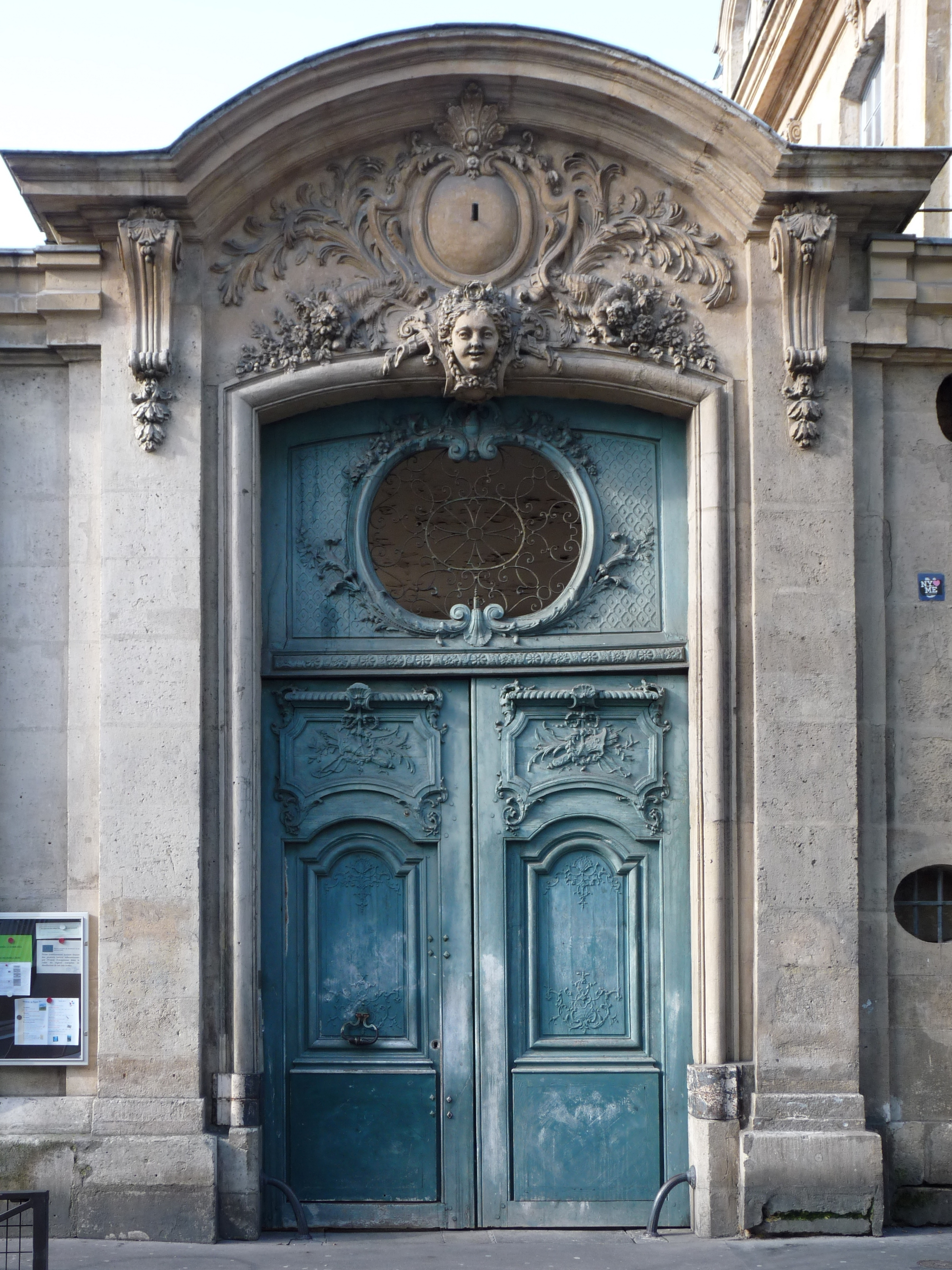 Entrance gate of number 5, rue Béranger, in Paris.